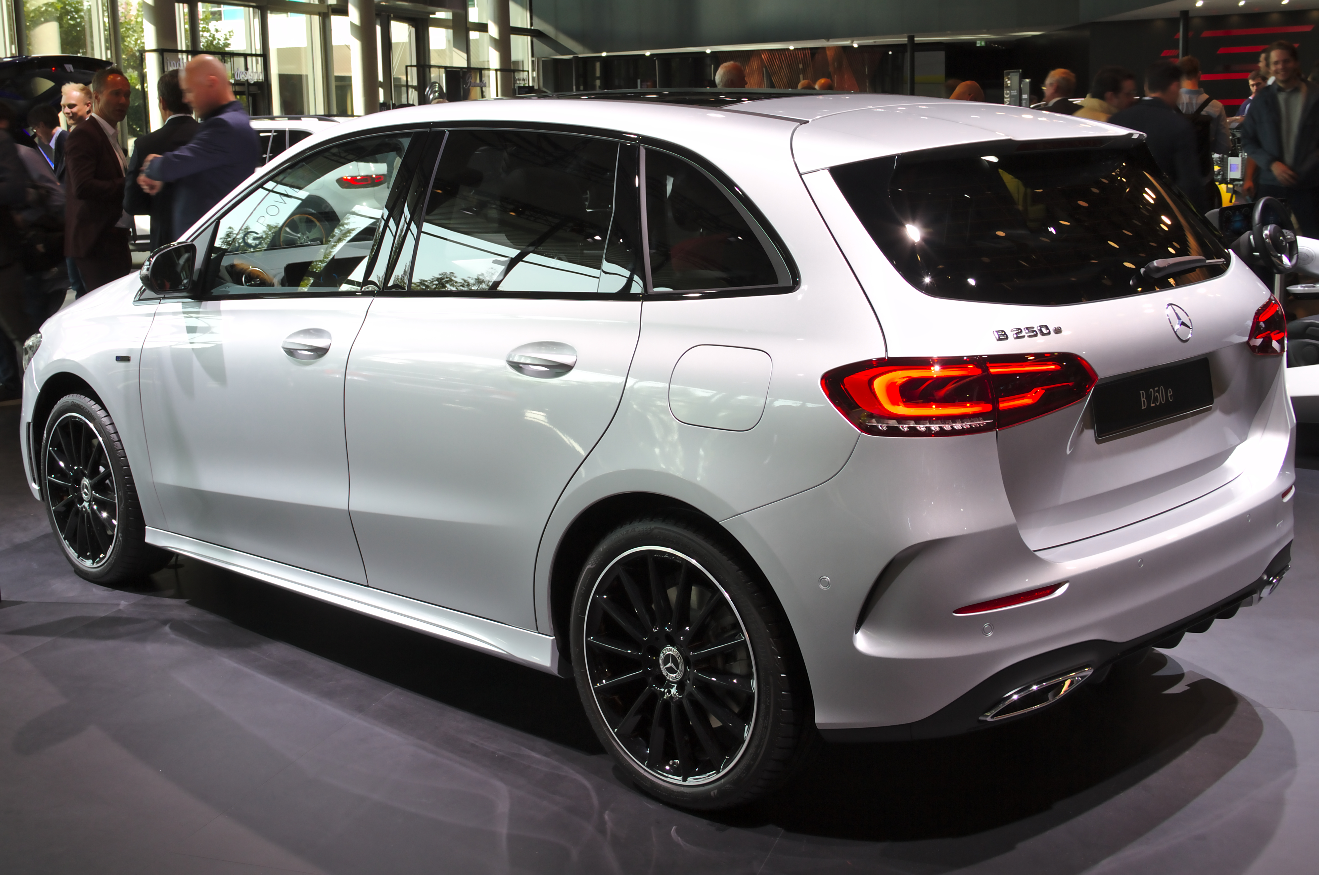 Mercedes-Benz_W247_250_e at IAA 2019